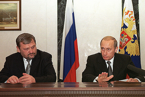 Akhmad Kadyrov and Vladimir Putin.